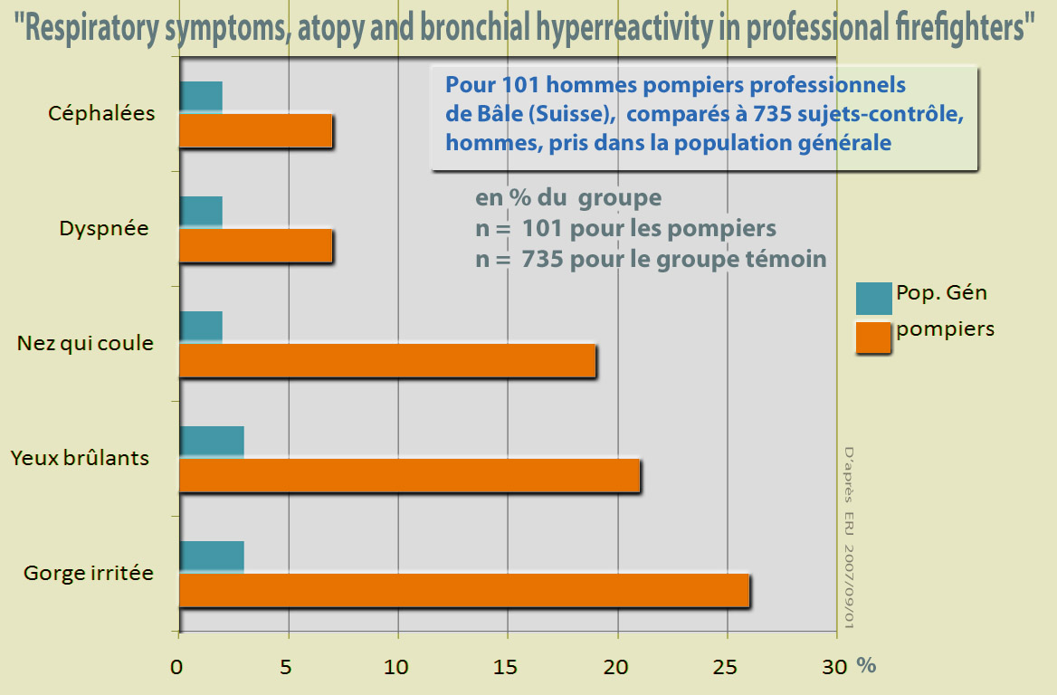 Respiratory symptoms, in professional firefighters (Zurich)